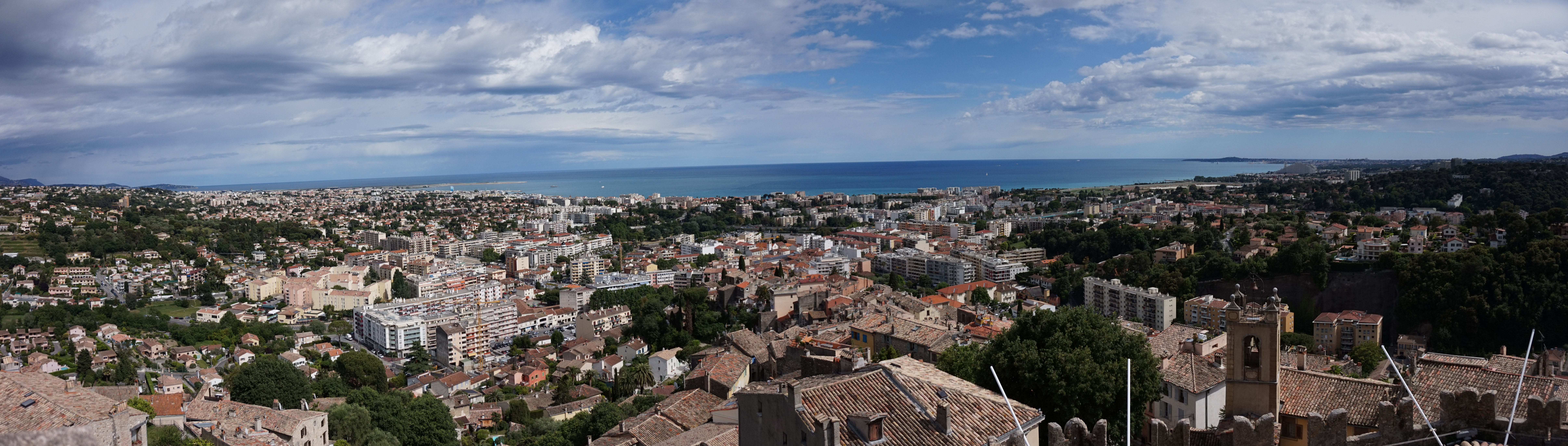 View of cagnes-sur-Mer from Heuts-de-Cagnes.This photograph was taken with a Sony ILCE-5000